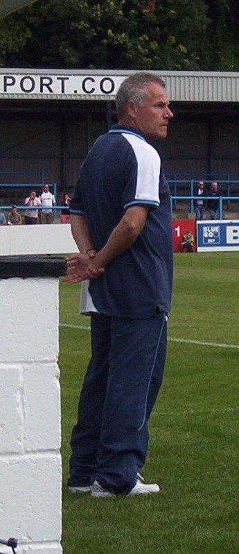 Peter Taylor, photographed by myself managing Wycombe Wanderers against Dover Athletic in July 2009